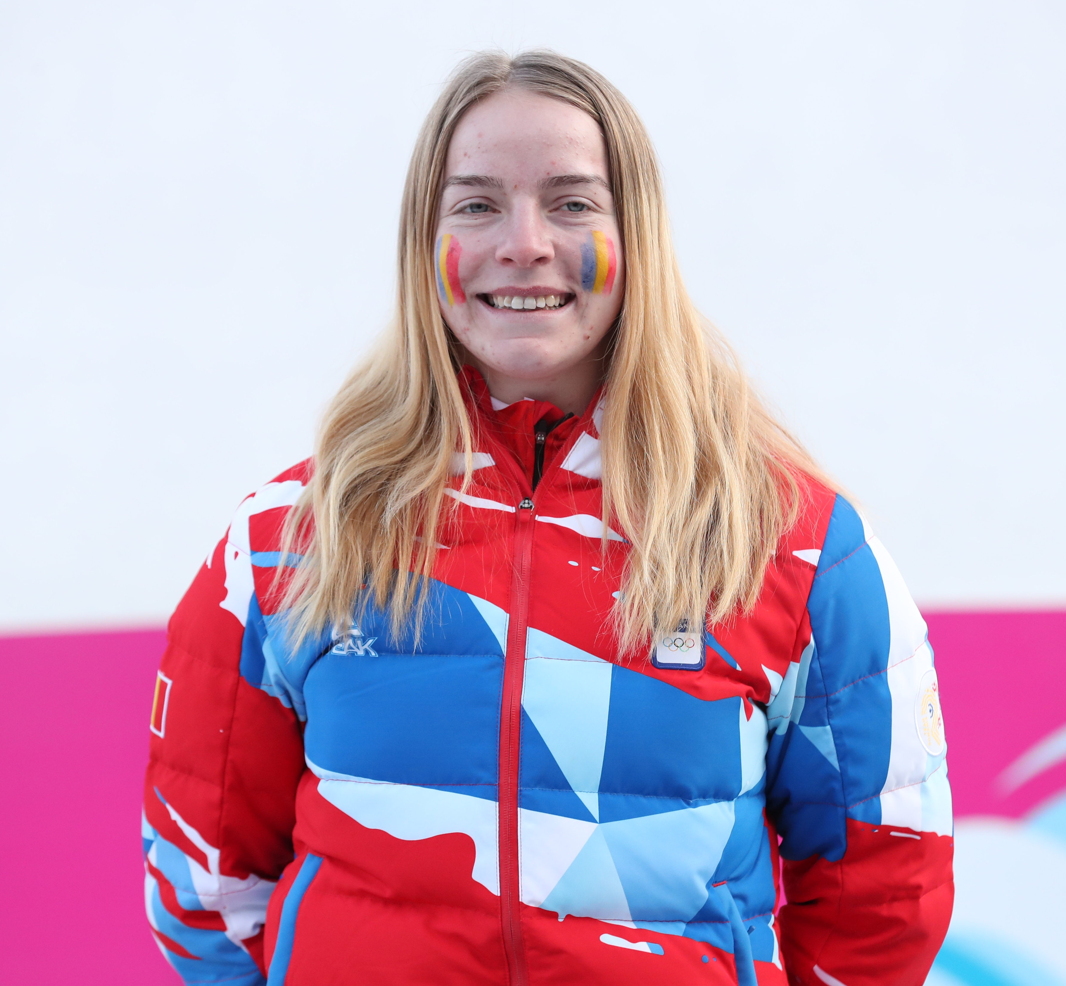 Mascot Ceremony Women's Monobob at the 2020 Winter Youth Olympics in Lausanne